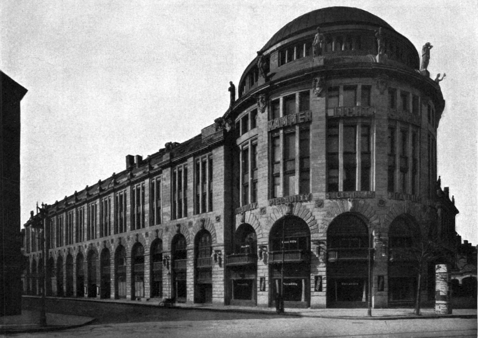 The newly built "Haus Potsdam", later called "Haus Vaterland" on Potsdamer Platz in Berlin-Tiergarten, built 1911/1912 by the architect Franz Schwechten. On the left the Königgrätzer Straße, now called Stresemannstraße.